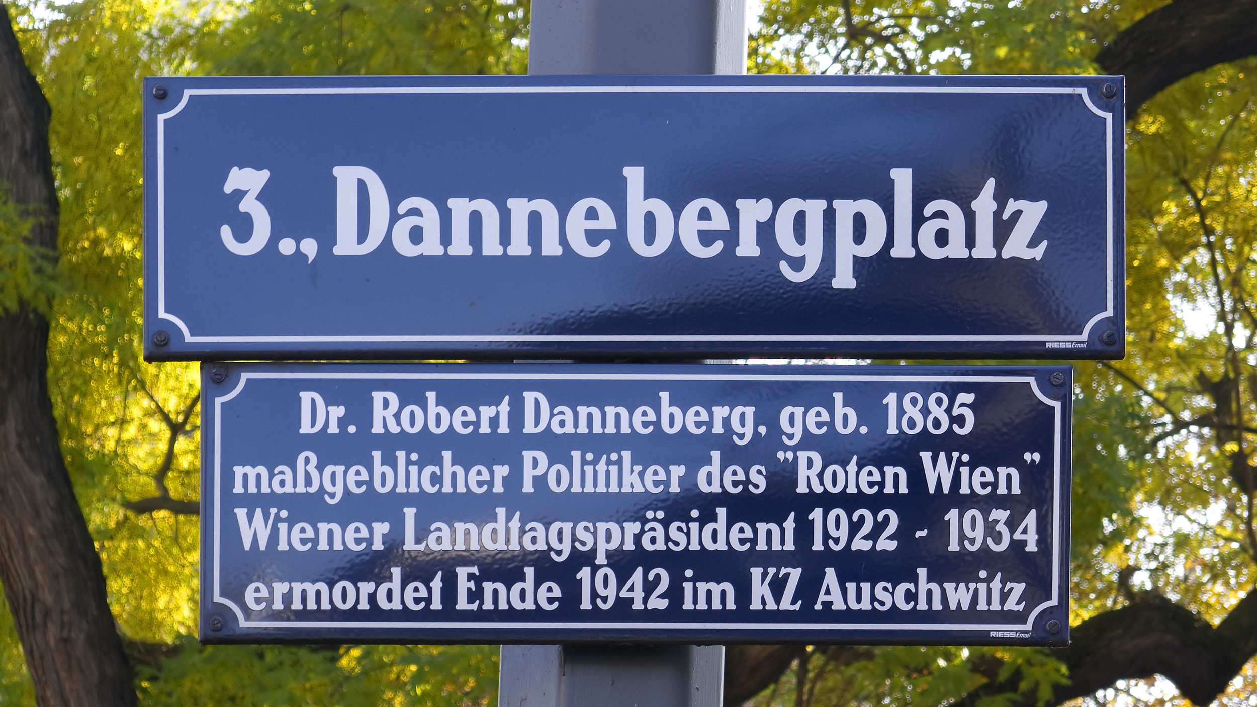 Arenbergpark in Vienna 3